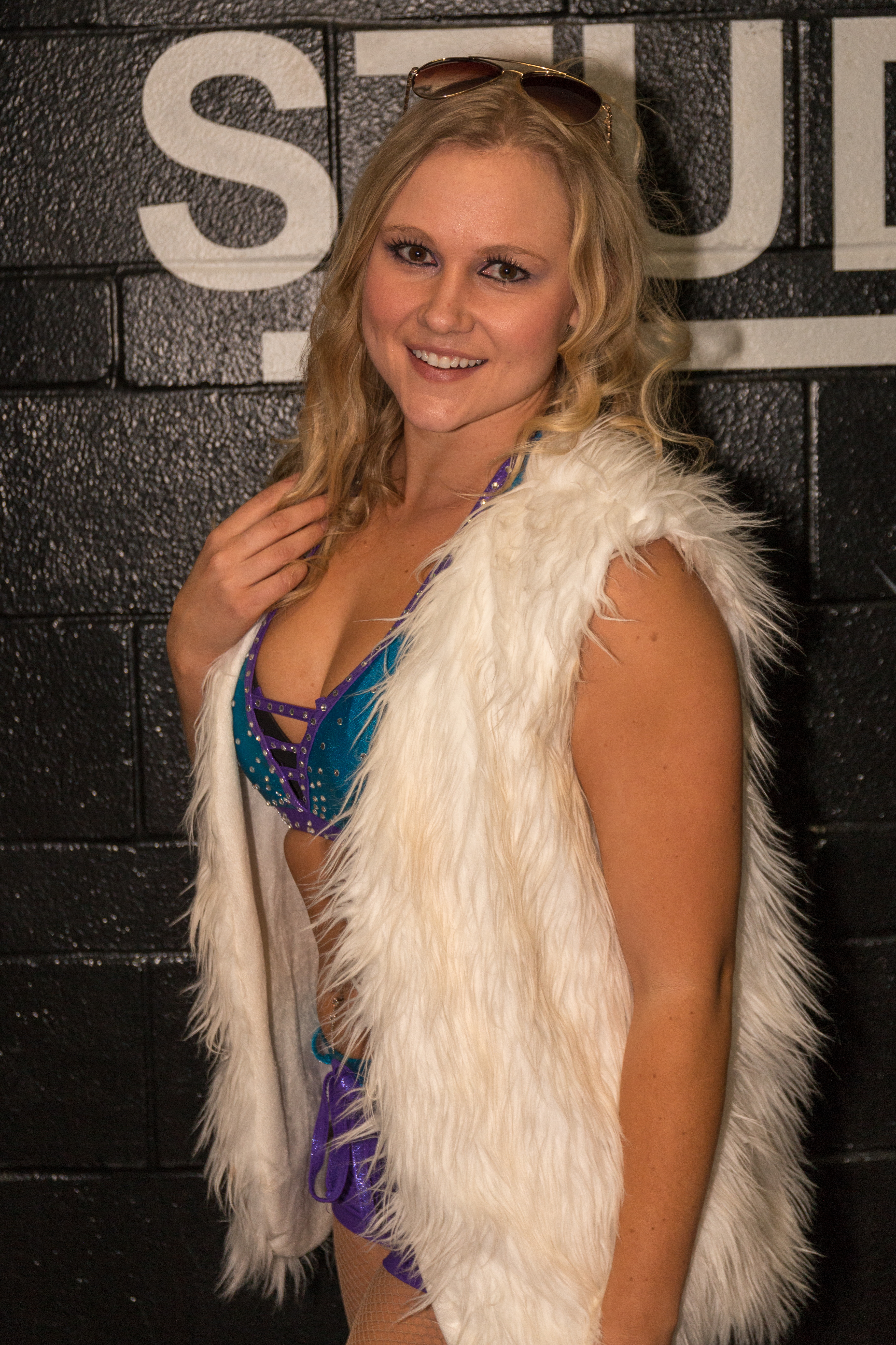 Independent wrestler Leah Vaughan (formerly Leah von Dutch) at a Smash Wrestling show at Fanshaw College in London, ON